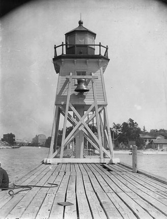 U. S. Coast Guard Archive photo of the Charlevoix South Pier Light, Michigan